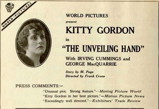 Ad for the American film The Unveiling Hand (1919) with Kitty Gordon, on page 1588 of the March 22, 1919 Moving Picture World.